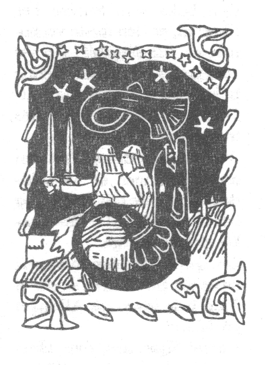 Gerhard Munthe: Illustration for Snorres fortale. Snorre 1899-edition. 1